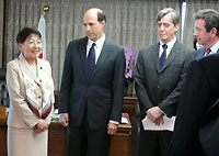 Jonathan Fried, Philippe Faure, Vincenzo Petrone, Ian Kennedy, Miguel Angel Carriedo Mompin, David Warren and John Roos, Ambassadors to Japan, met Keiko Chiba, Minister of Justice, at the Ministry of Justice in Chiyoda Ward, Tōkyō Metropolis on October 16, 2009.